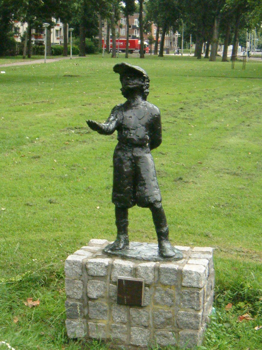 Boefje (Little thief) is a bronze sculpture, made by Tineke Slingerland-Nusink inspired by the book with the title Boefje by M.J. Brusse about a boefje in Rotterdam. It was unveiled 14 March 1980 by the city's mayor André van der Louw.